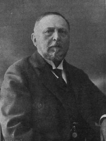 Portrait of Lajos Ilosvay